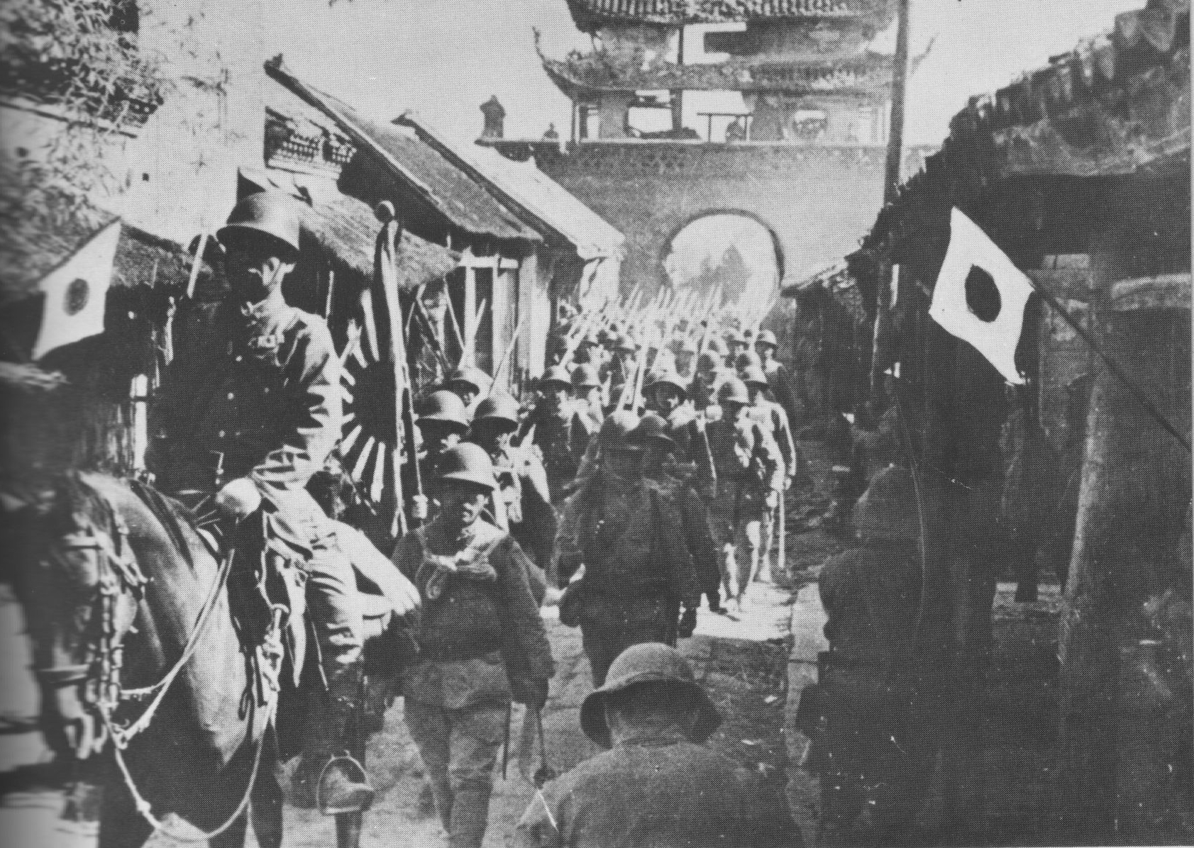 Japanese troops occupying a Chinese town in Anhwei province, 1938.